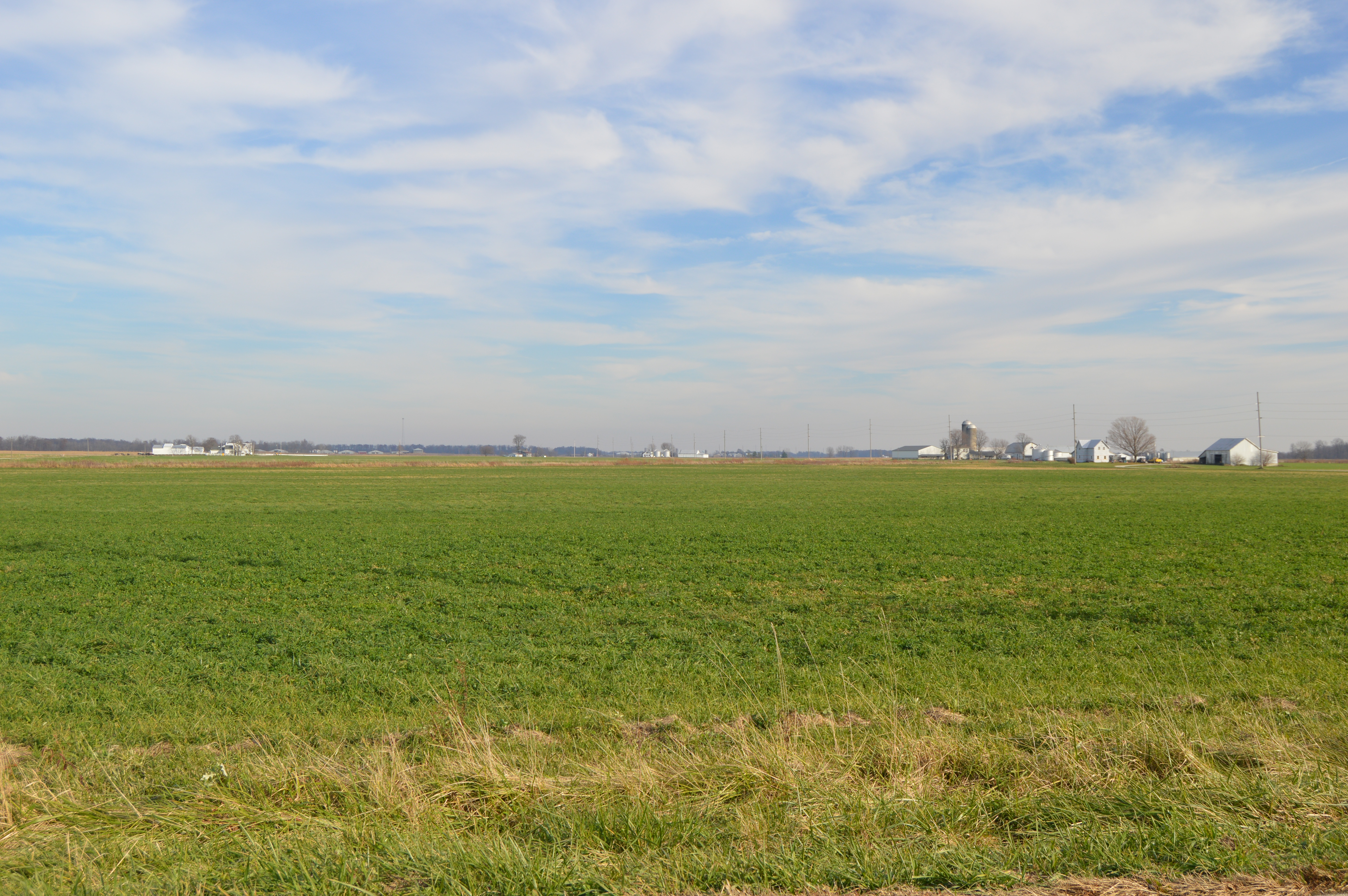 Looking eastward from Elijah York Road over farms in far western York Township, Darke County, Ohio, United States.